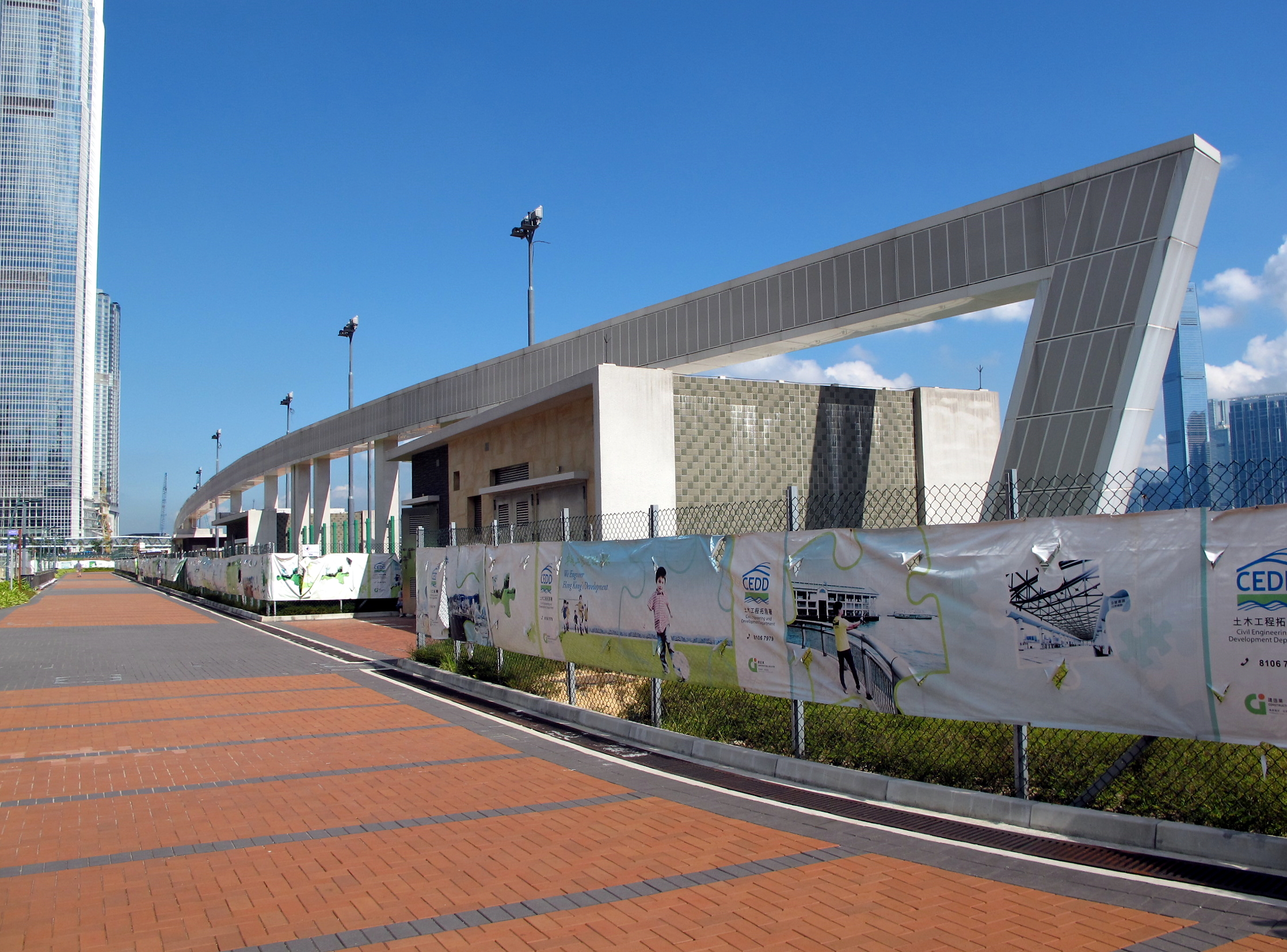 Central and Western District Promenade Military Pier area Structure